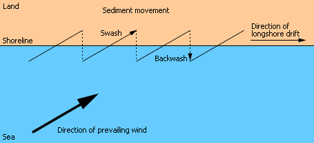 Diagram of longshore drift.